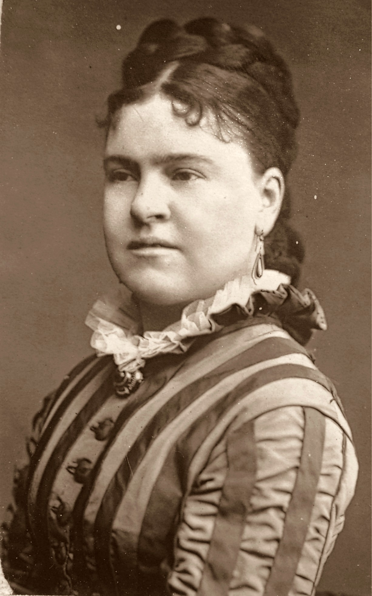 Sarah Edith Wynne 1842-1897, Welsh Opera Singer.